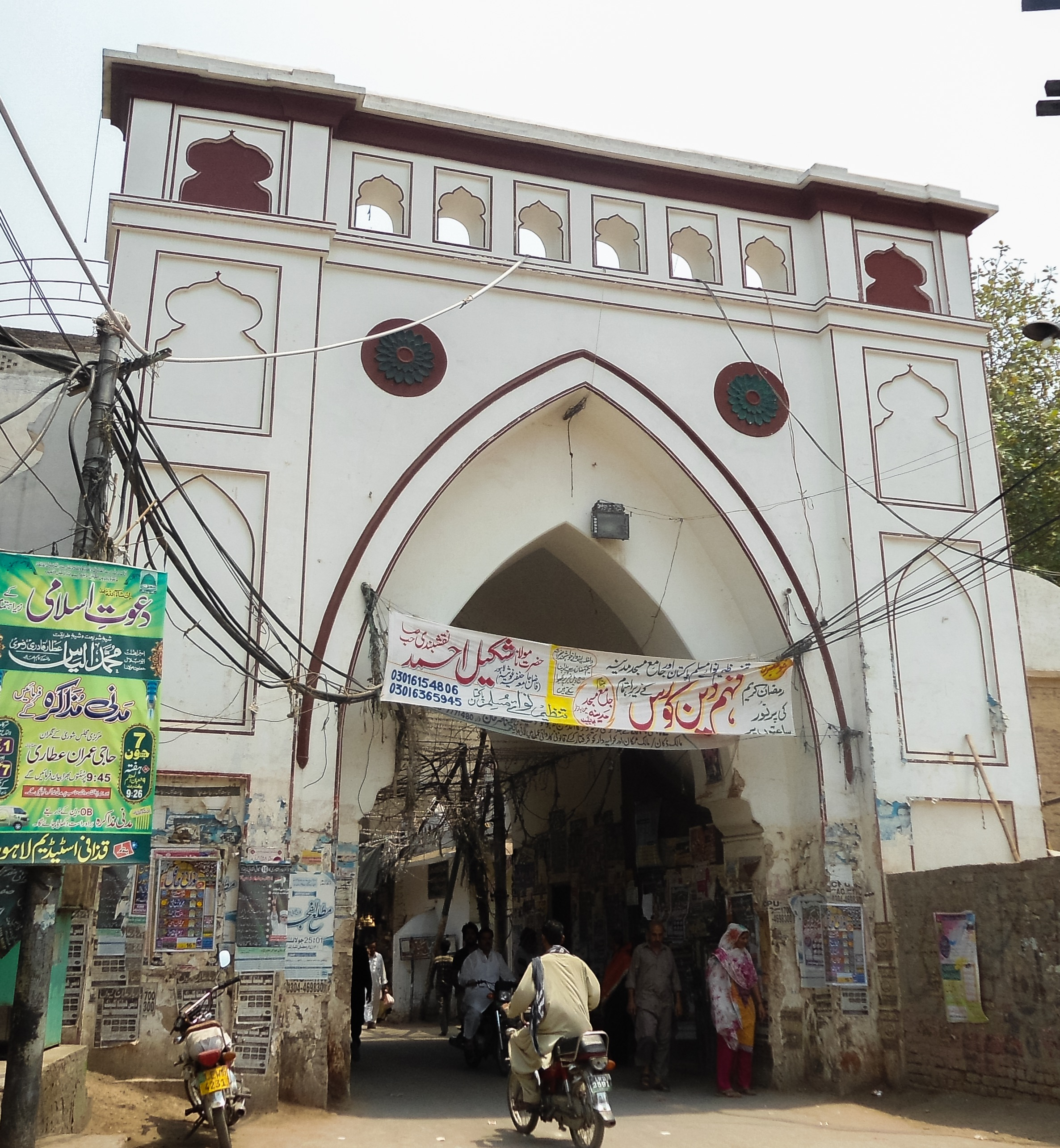 A view of Lahore's Bhati Gate.